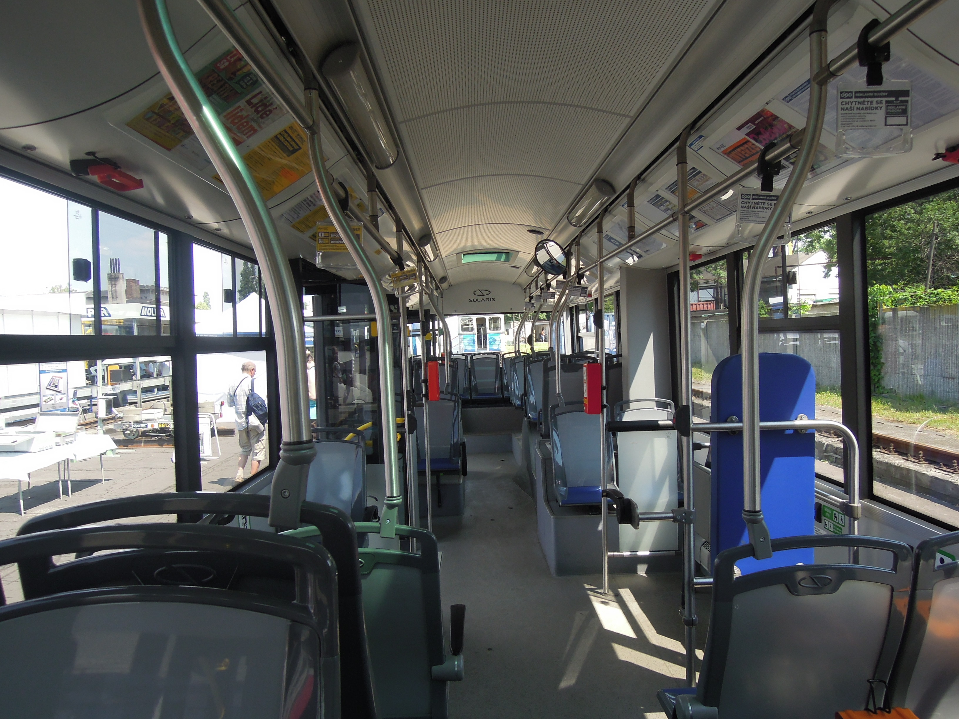 Škoda 26Tr Solaris trolleybus of Dopravní podnik Ostrava at the Czech Raildays 2013 trade fair in Ostrava, Czech Republic